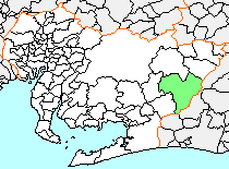 map of former Hōrai Town (now part of Shinshiro City), Aichi, Japan